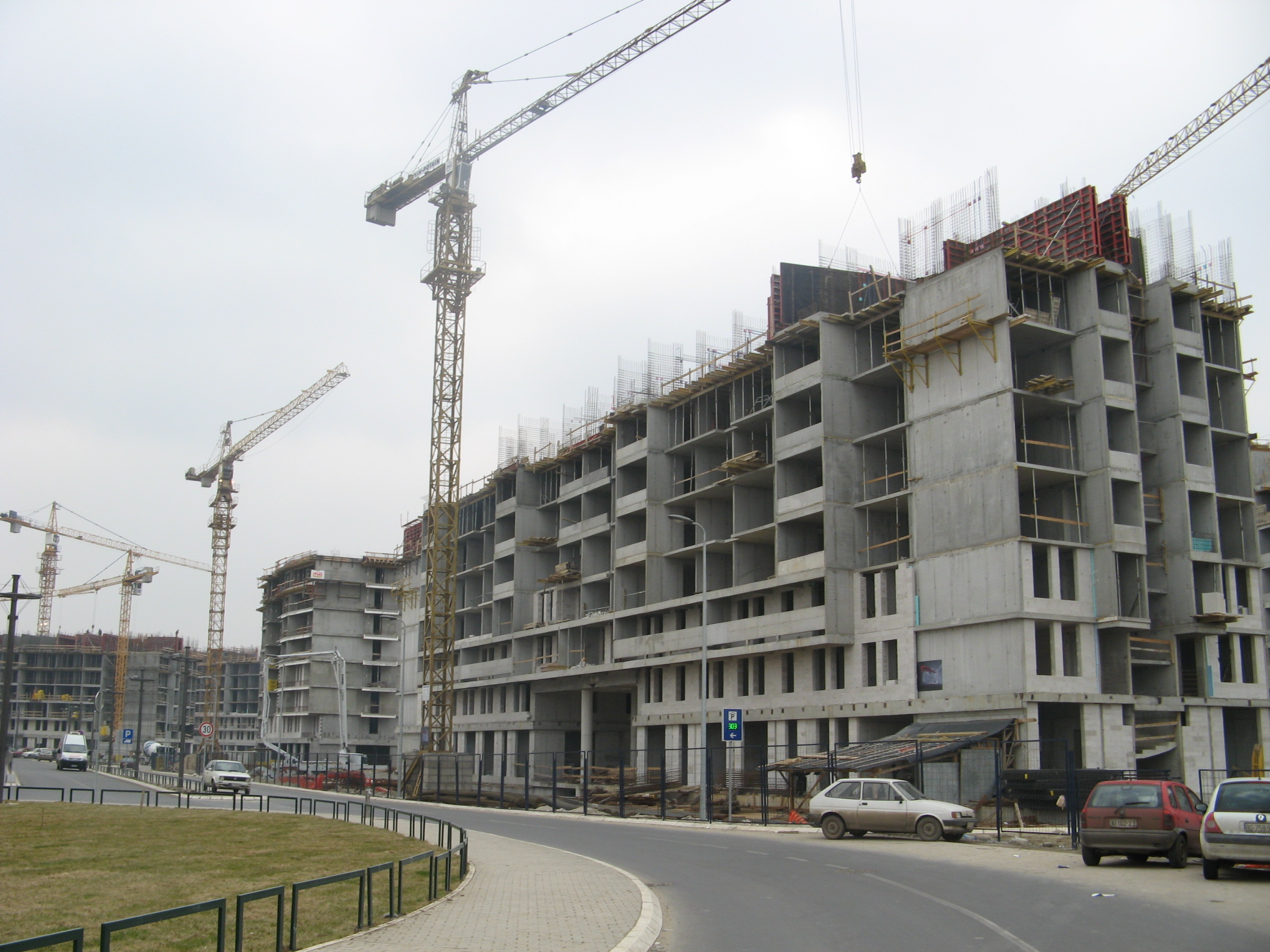 2009 Summer Universiade village under construction.